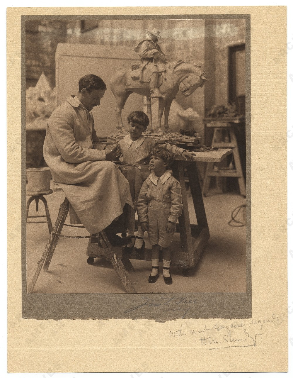 Photograph of sculptor Henry Merwin Shrady (1871-1922) and his sons in his studio. His model for General Alpheus S. Williams is in the background.